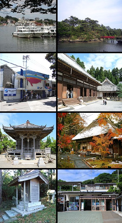 Matsushima montage